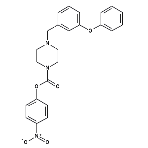 The molecular structure of JZL195